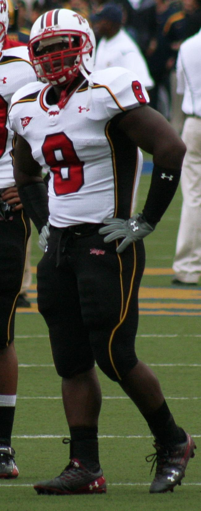 Running back Davin Meggett during the 2009 California-Maryland football game at Memorial Stadium in Berkeley, California.